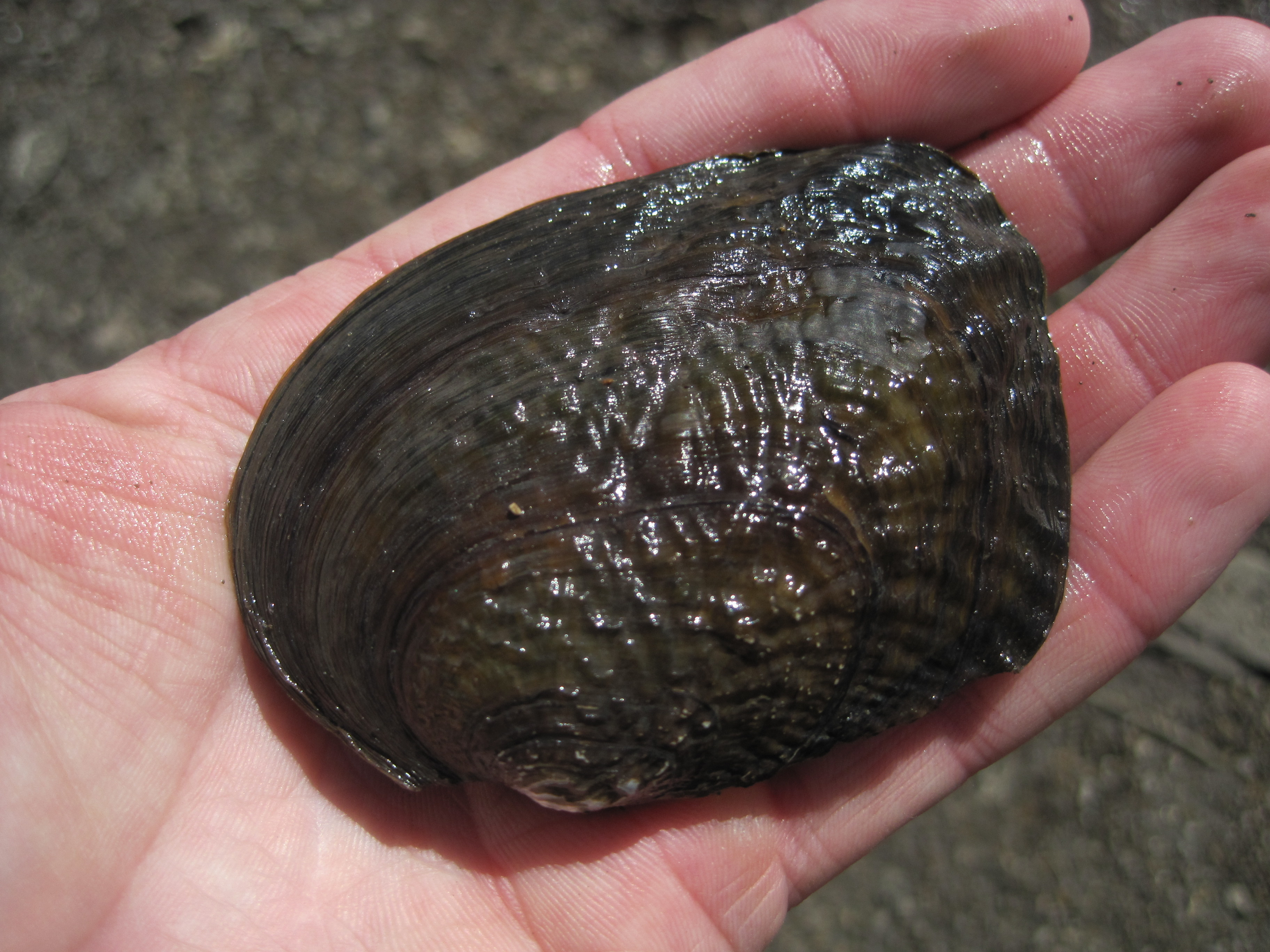 With the general shape of a pistolgrip, the Pistolgrip mussel (Tritogonia verrucosa) can be easily identified. This Pistol grip was found in the Marais des Cygnes River in Kansas. Photo credit: Tim Menard / USFWS.